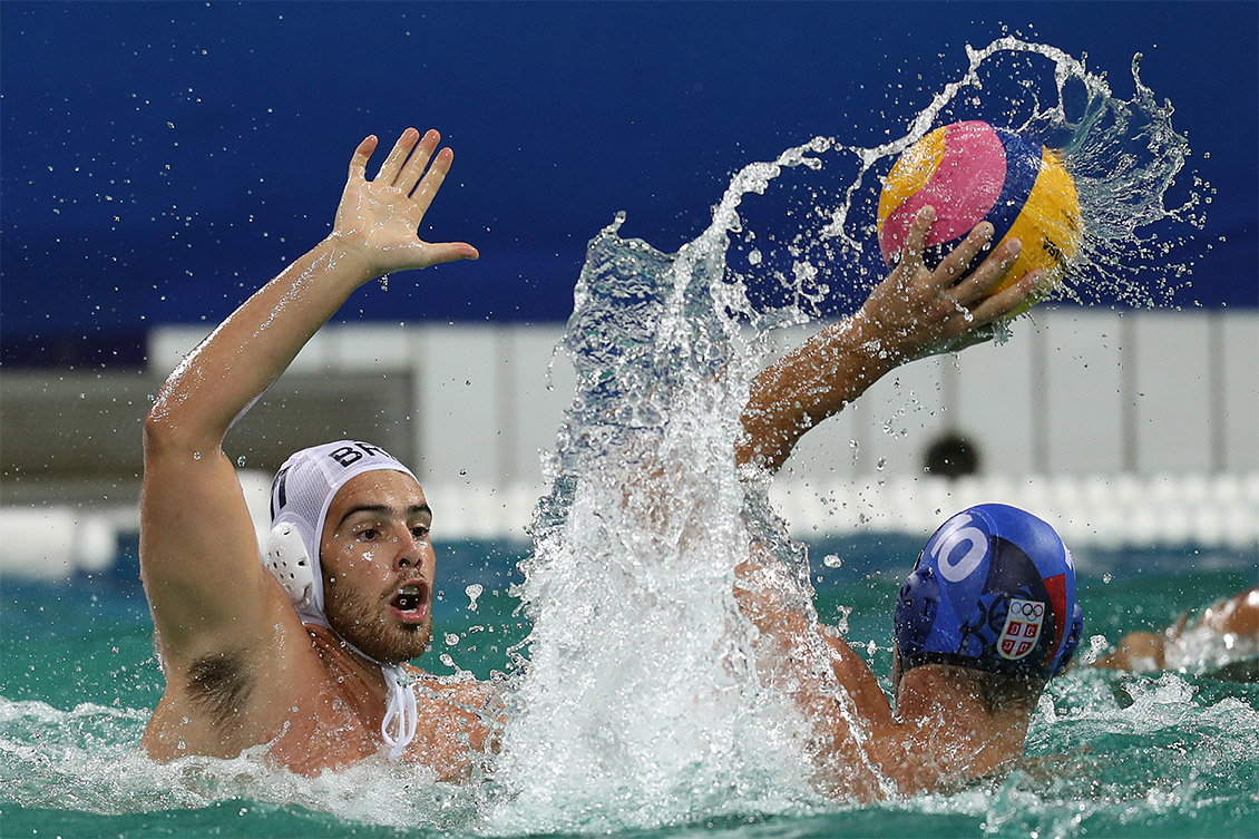 Brazil against Serbia at the summer Olympic Games in Rio